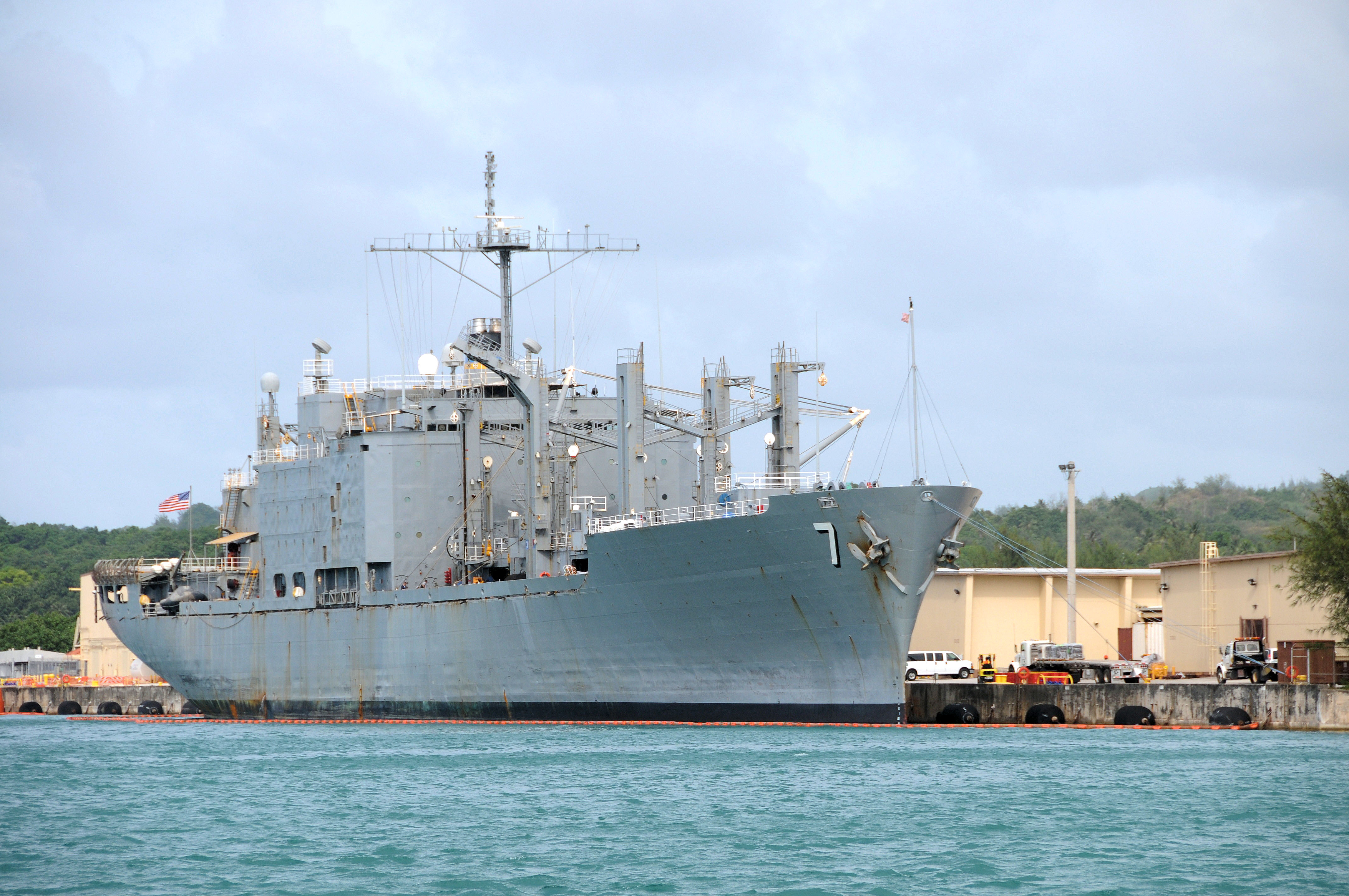 MSC combat stores ship USNS San Jose is offloaded by crew members at U.S. Naval Base Guam. The ship visited the island for several days before heading to Pearl Harbor, Hawaii, where it will officially deactivate in January. U.S. Navy Photo by Jesse Leon Guerrero